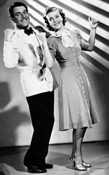 Adolf Jahr and Alice Babs in Swing it, Magistern! (1940). Alice Babs got the part in Schamyl Baumans's film at the age of 16. It was released in december 1940.